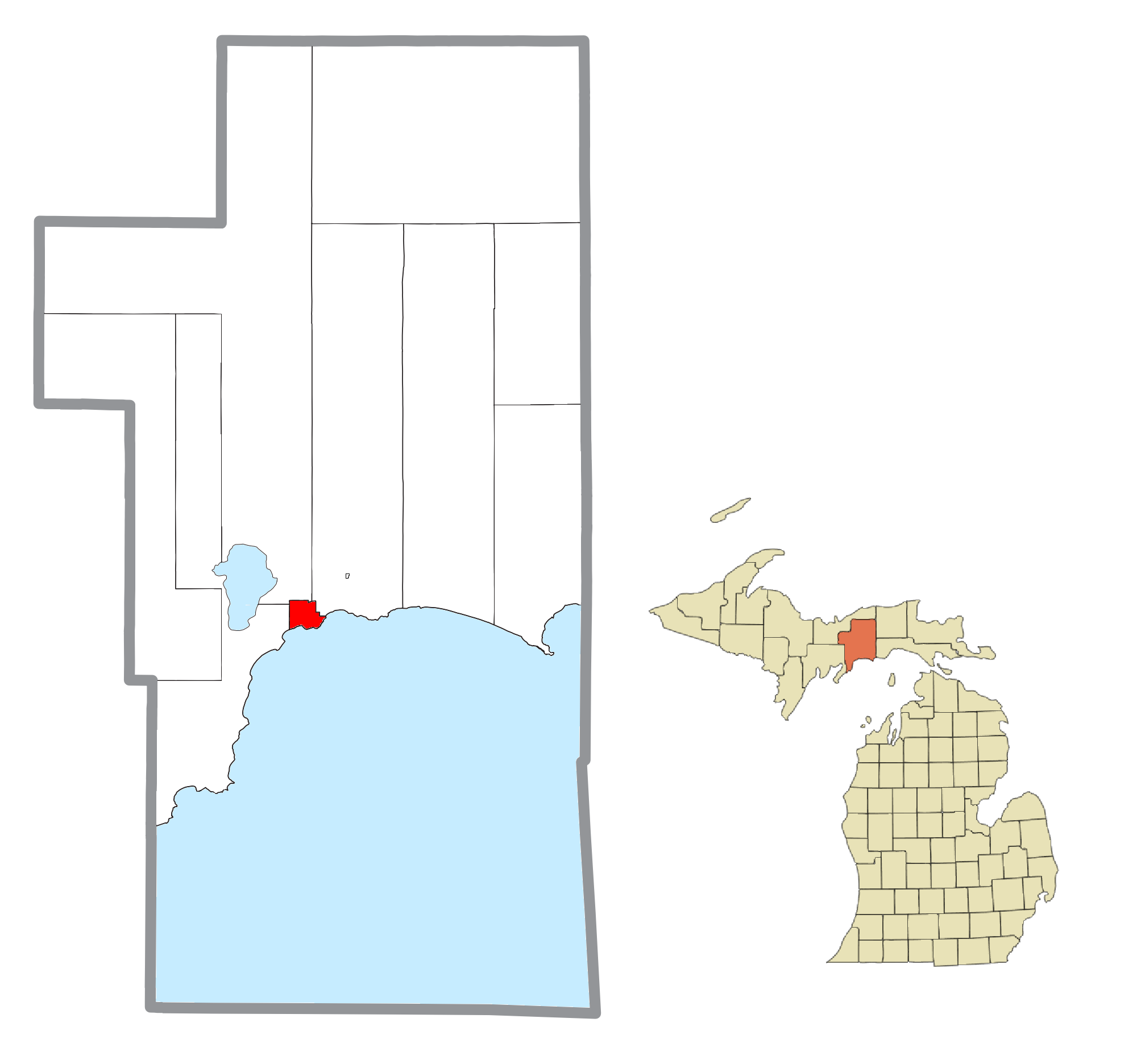 Manistique, MI